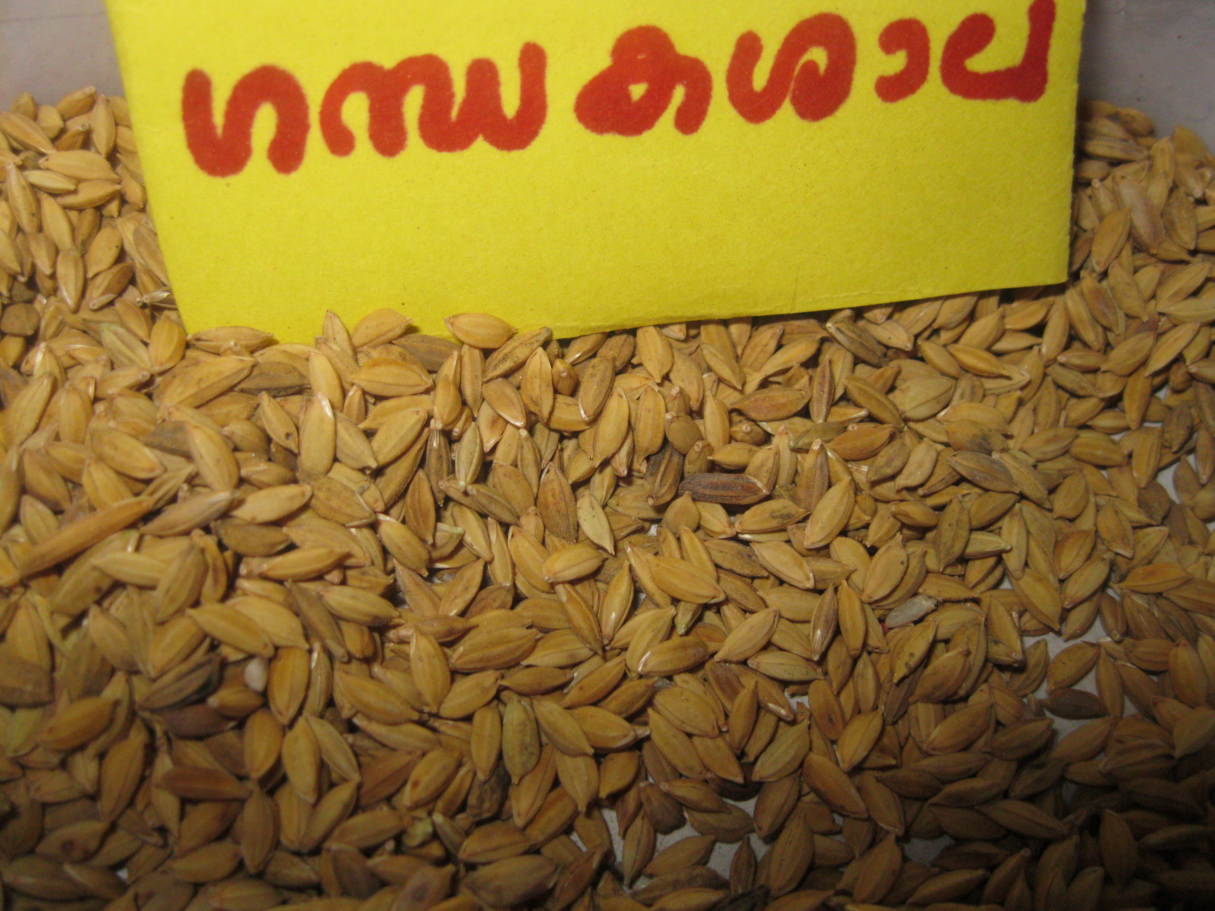 a special type of paddy seed in Kerala, India